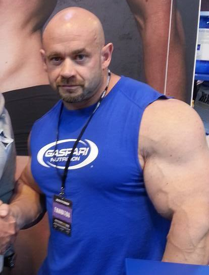 Branch Warren at BodyPower